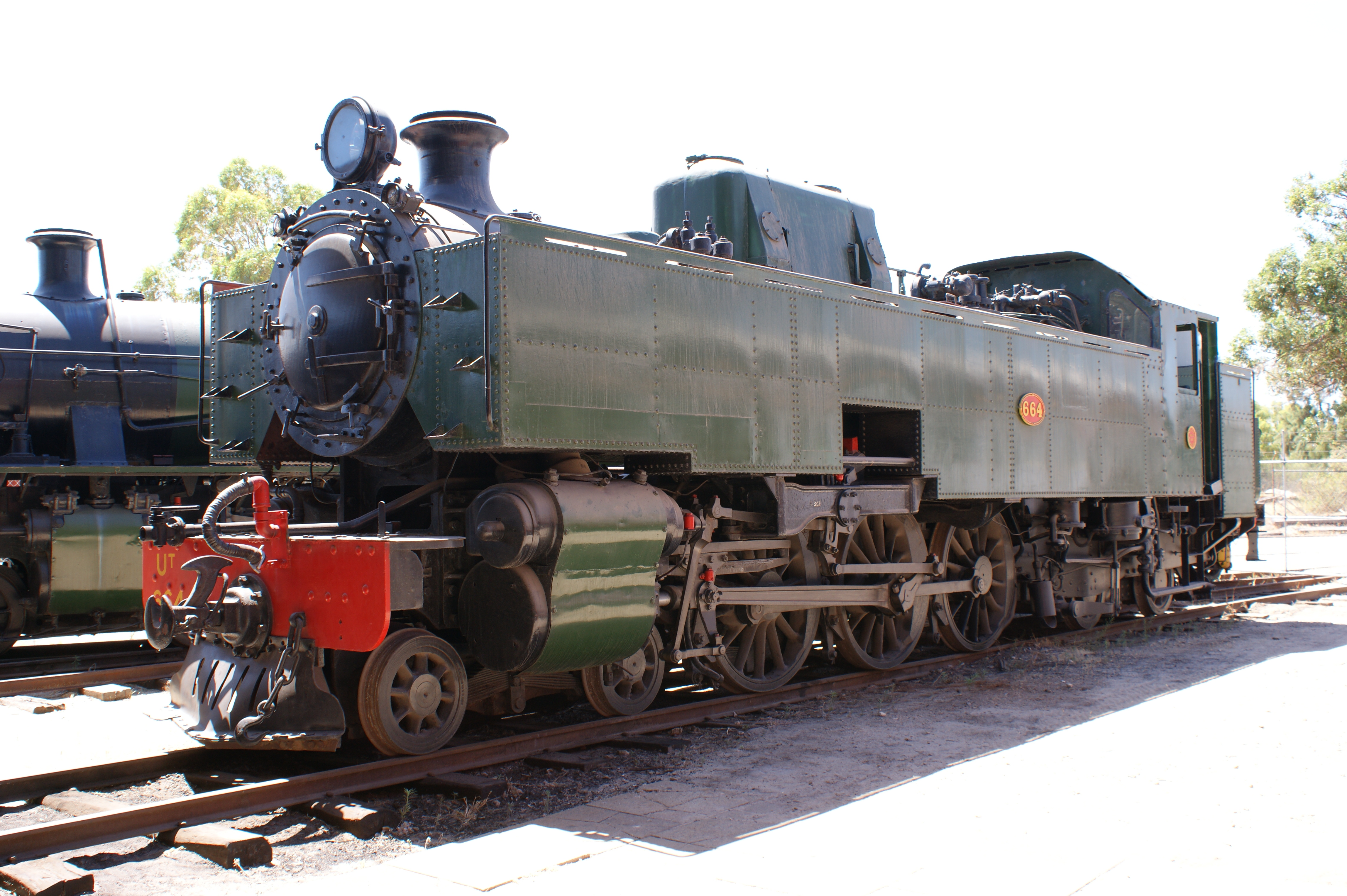 WAGR "Ut" 4-6-4T No.644 (built as "U" 4-6-2 by North British 24872/1942, then rebuilt by WAGR Midland Works 1957 to tank).